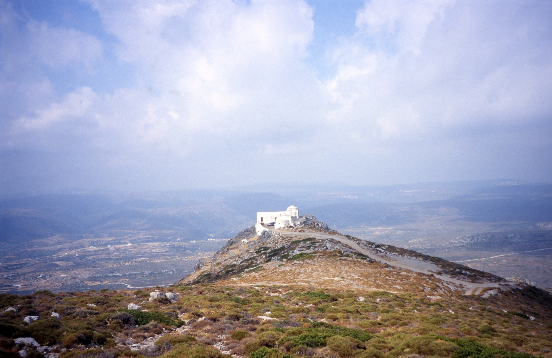 Church of Agios Georgios, Island of Kythira